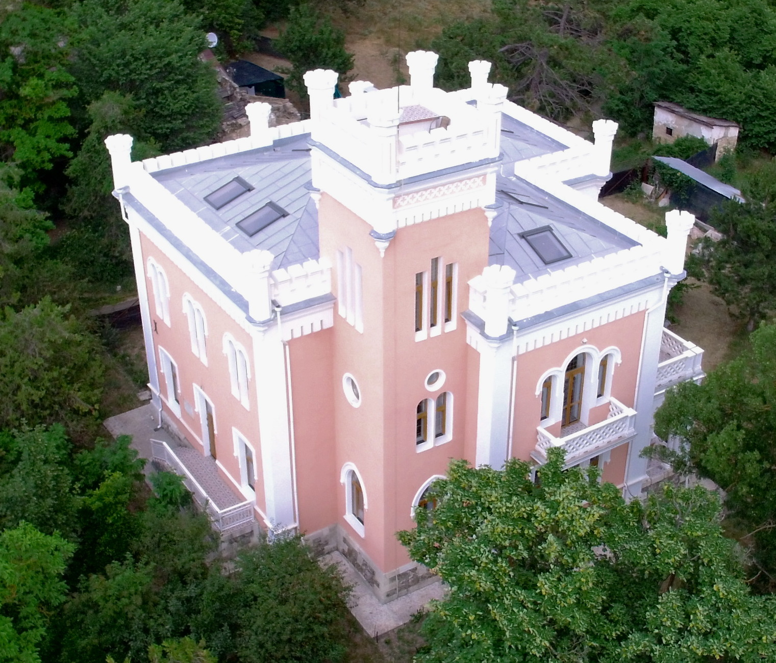 Fersmanovo, Kessler's (Fersman's) house, 2018.06.16 (04) (43537903052)